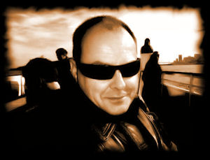 Photo of Kris Saknussemm taken in 2007.